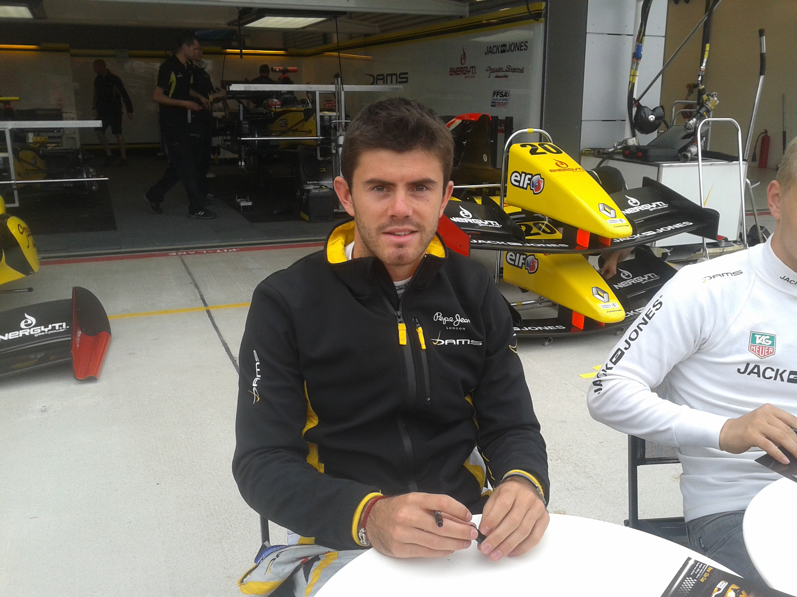 Norman Nato at Moscow Raceway, 22 June 2013